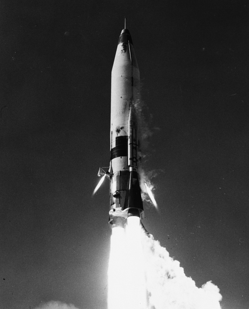 PictionID:40974738 - Title:Atlas ICBM Launch--'(text on envelope refers only to number of copies printed at various sizes) - Catalog:14_001158 - Filename:14_001158.tif - PictionID:40977923 - Title:Ranger 8 launch--'Mercury binder; Ranger 8 - Catalog:14_001259 - Filename:14_001259.tif - Image from the Convair/General Dynamics Astronautics Atlas Negative Collection---Please Tag these images so that the information can be permanently stored with the digital file.---Repository: San Diego Air and Space Museum